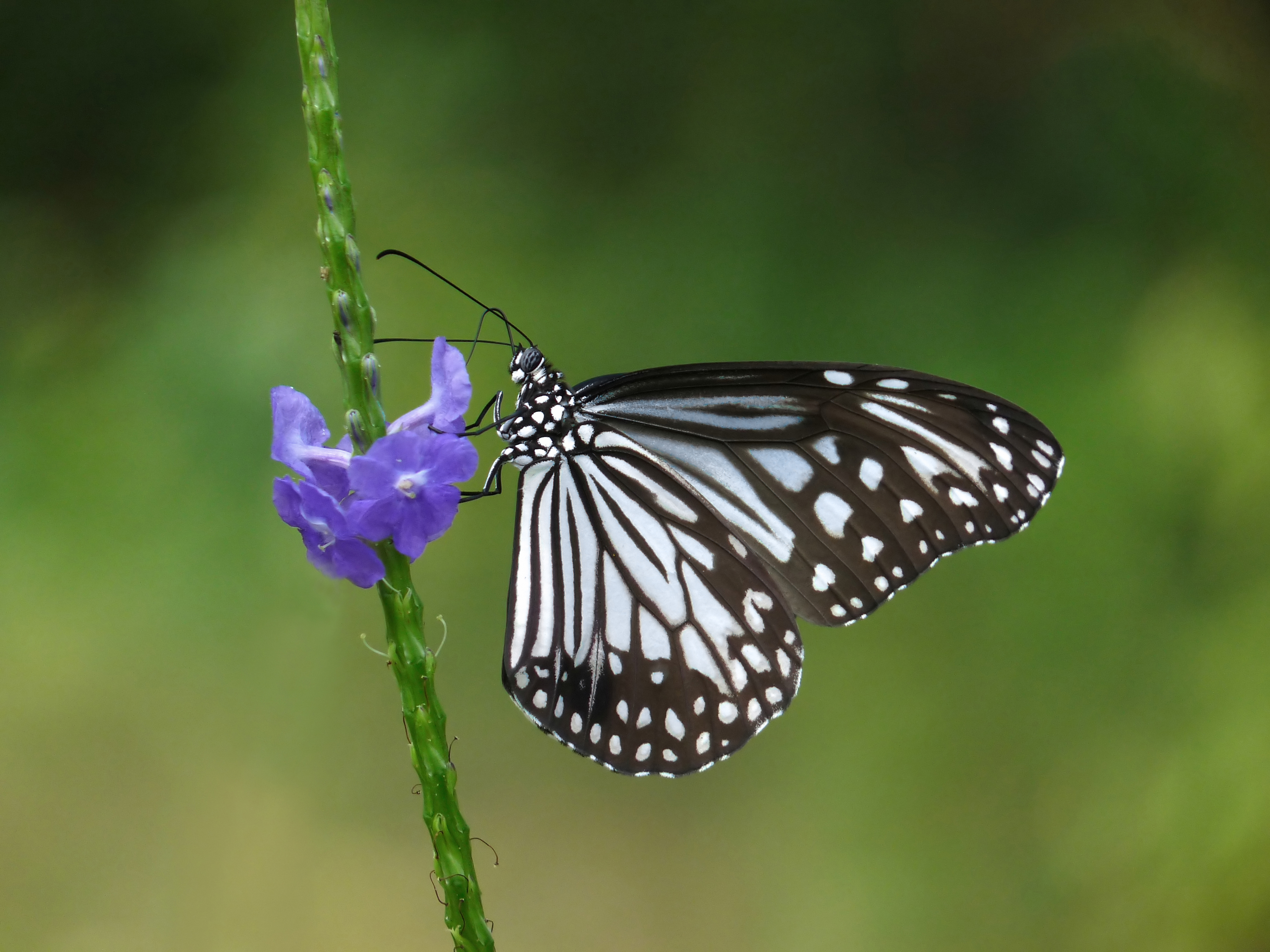 Parantica aglea, Glassy Tiger, is a Milkweed butterfly of the Nymphalid family found in Asia.